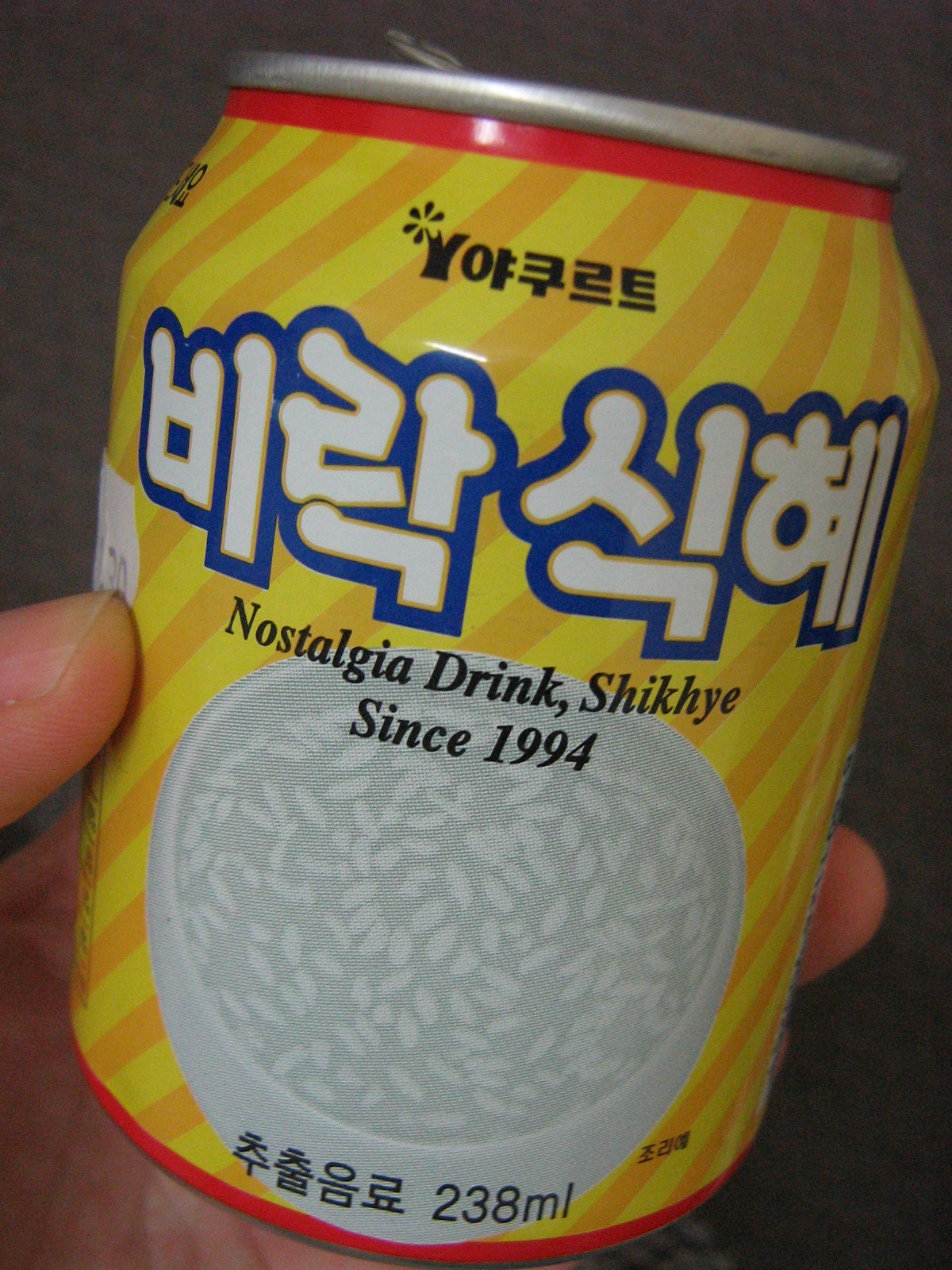 Sikhye, Korean traditional beverage made of rice and sugar.